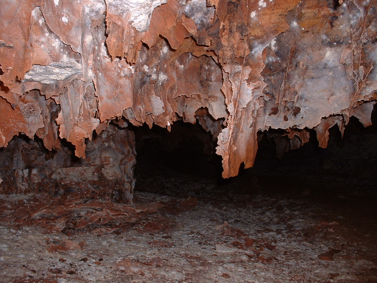 Cave Boxwork often call cratework when this large. Wind Cave